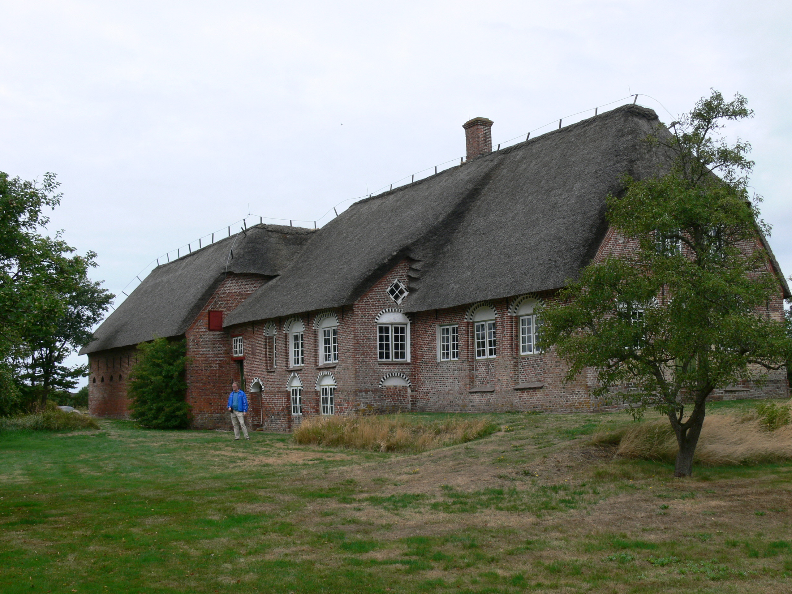 Rømø ( Denmark ). Kommandørgård National Museum - Backside.